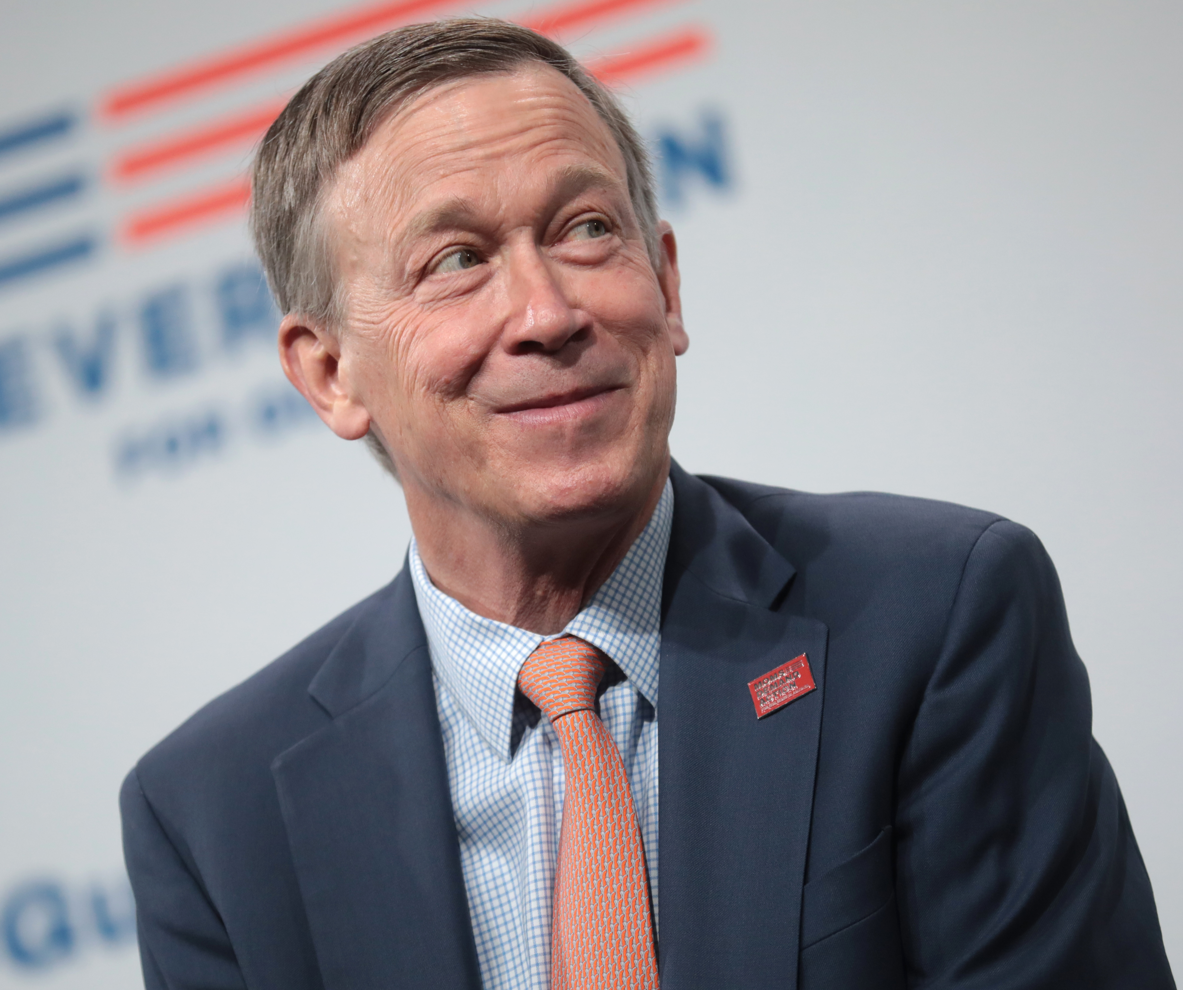 Former Governor John Hickenlooper speaking with attendees at the Presidential Gun Sense Forum hosted by Everytown for Gun Safety and Moms Demand Action at the Iowa Events Center in Des Moines, Iowa.